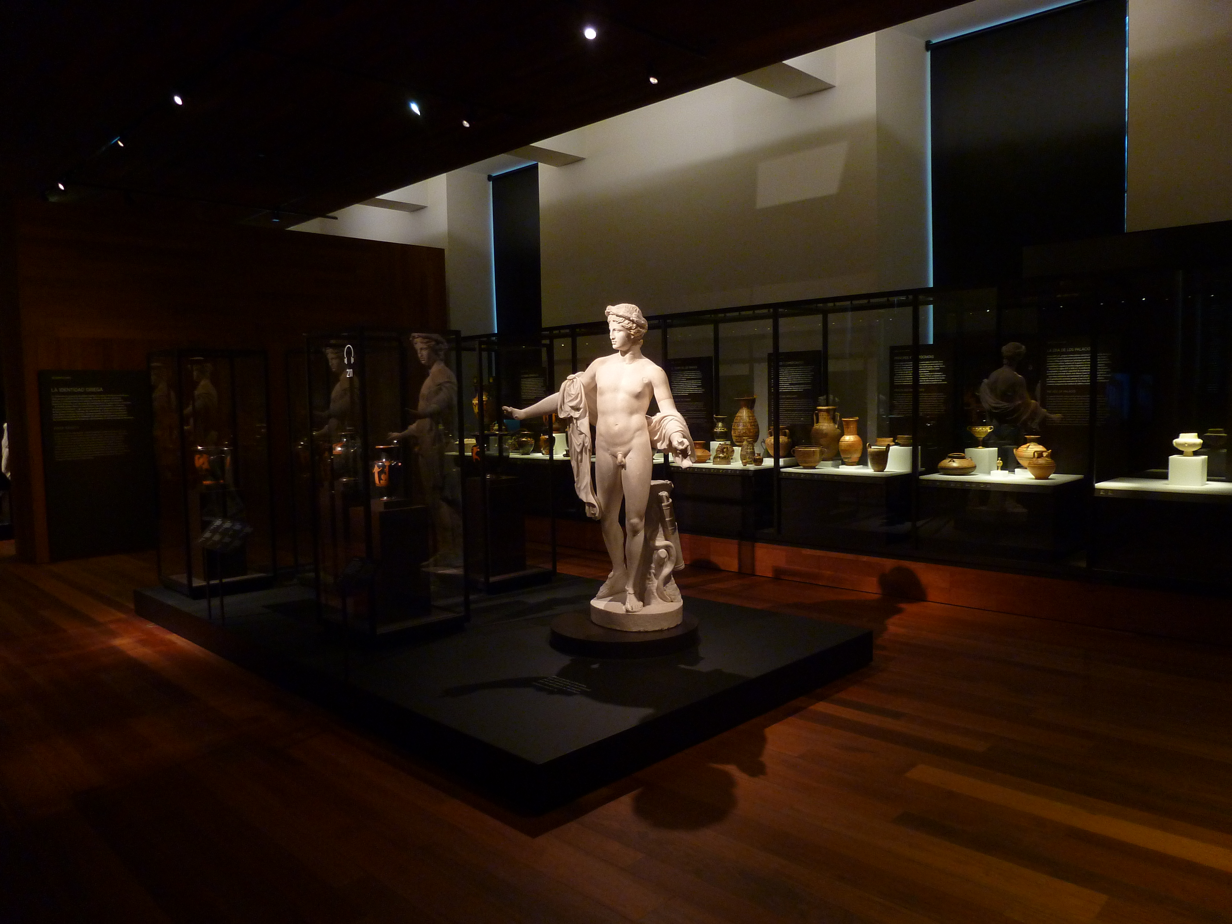 Greek room (room 36), National Archaeological Museum, Madrid, Spain